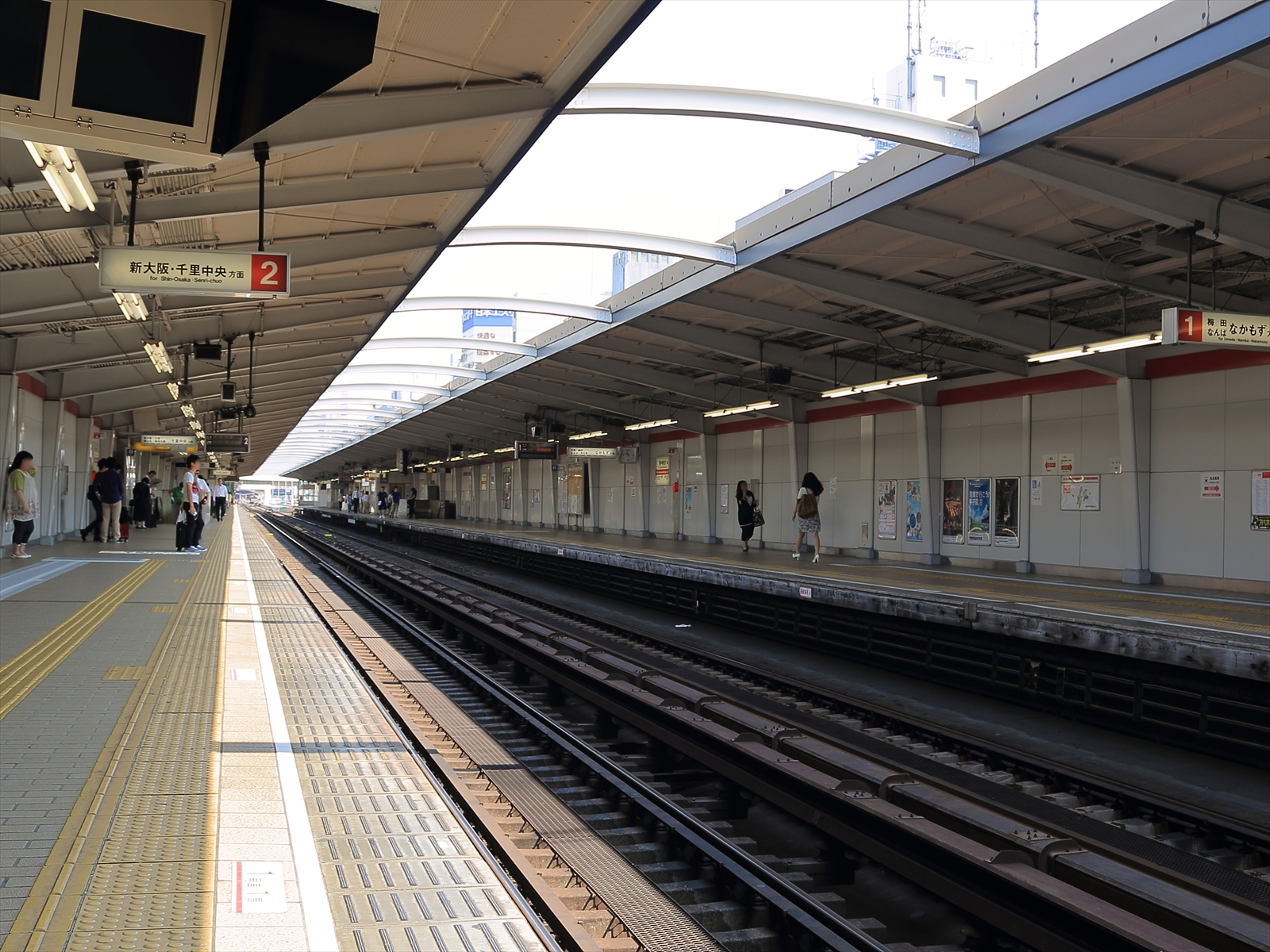 Platform from Nishinakajima-Minamigata Station.